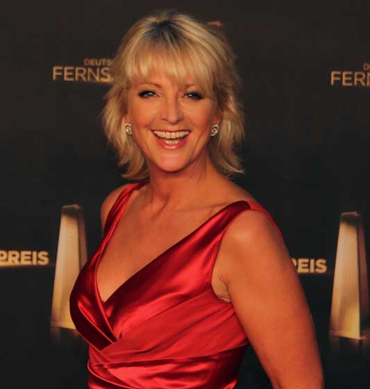 Template:DE